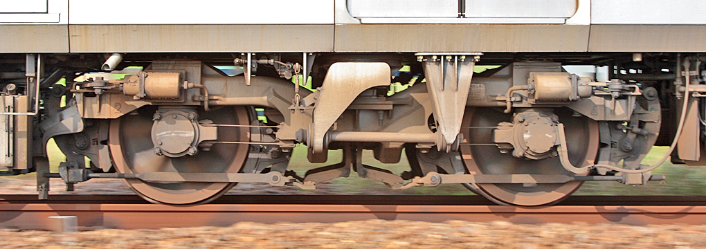 Sumitomo Metal Industries type FS-039 bogie truck of Meitetsu 5000 series ( II ) EMU ( Ku 5002 )